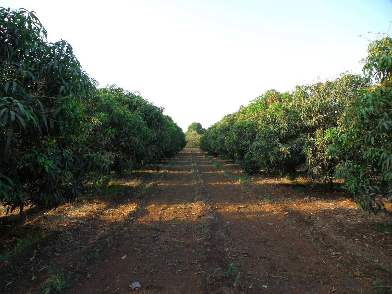 Though Saurashtra is largely considered a desert-like region, the road from Sasan Gir to Veraval is lined with countless mango and coconut plantations. It is strange to see these trees here.